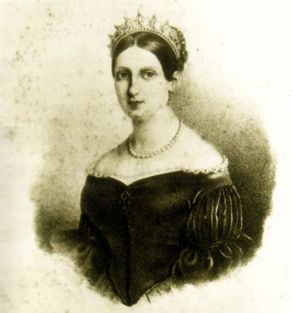 Maria Antonia of the Two Sicilies (1814-1898), Royal Princess of the Two Sicilies, Grand Duchess of Tuscany, consort of Leopold II, Grand Duke of Tuscany.